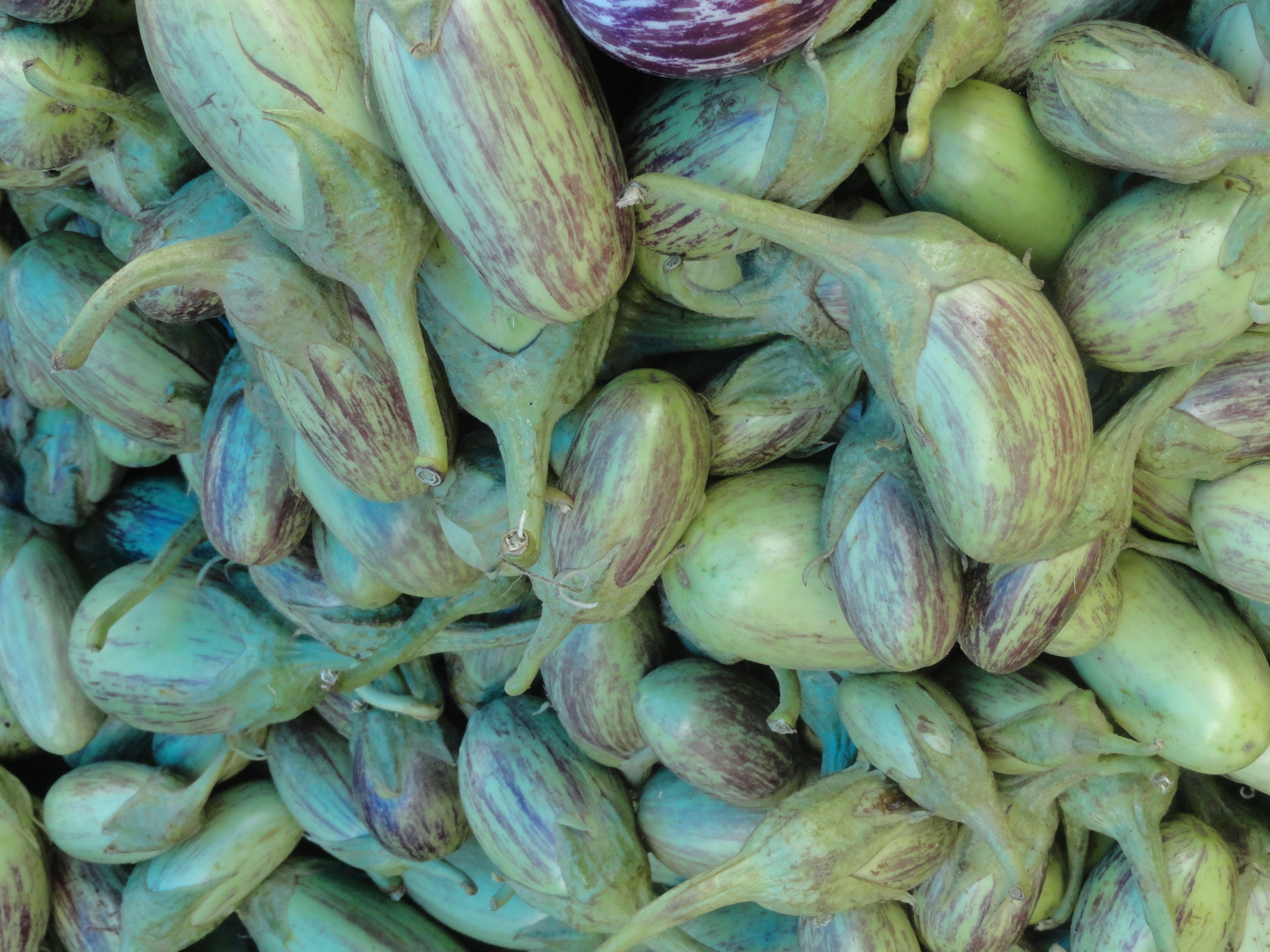 ఇవి పచ్చ రకం పొట్టి వంకాయలు.